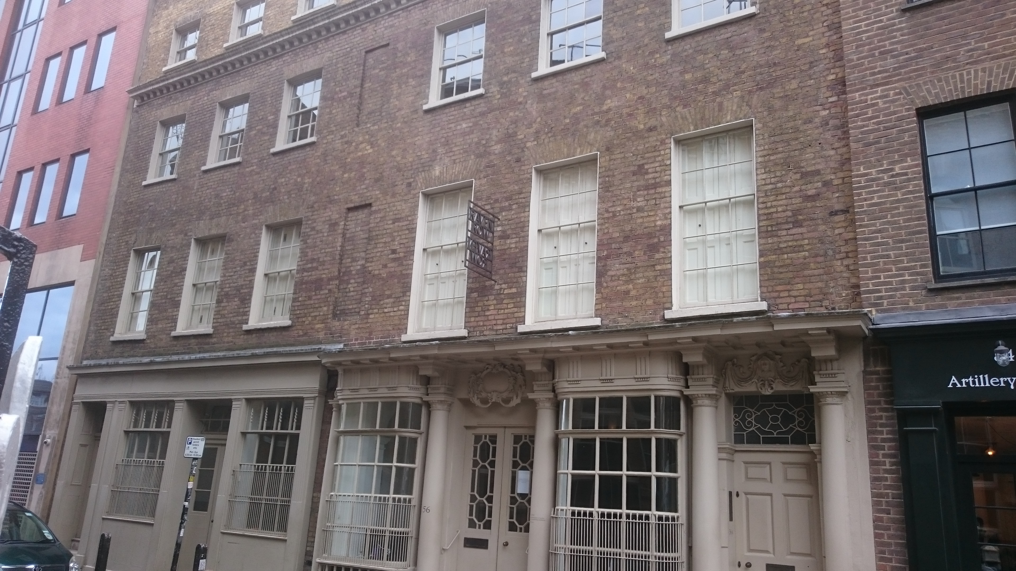 56 & 58 Artillery Lane, Grade I and Grade II buildings in Spitalfields, Londn